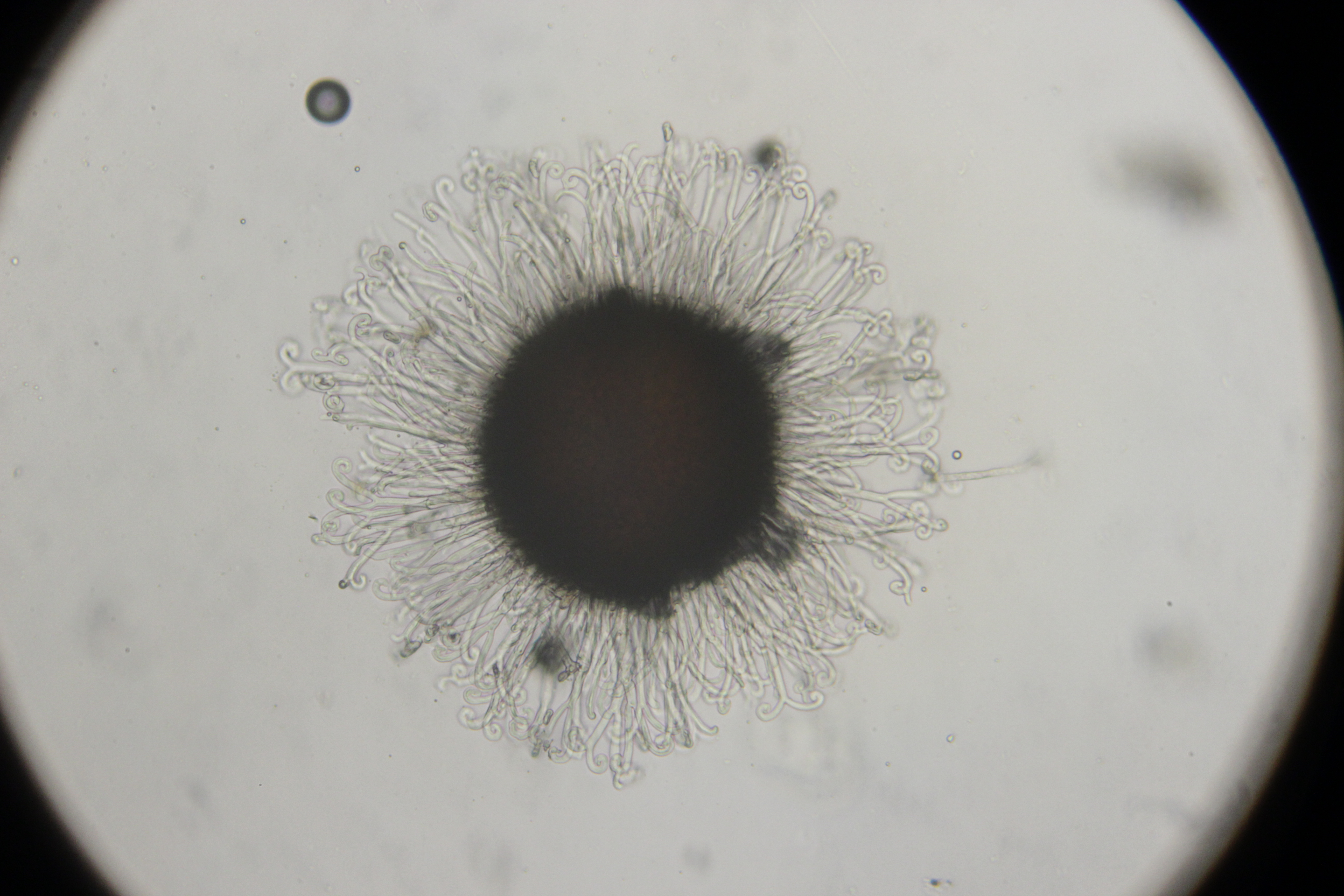 Sawadaea tulasnei on Norway Maple - Acer platanoides